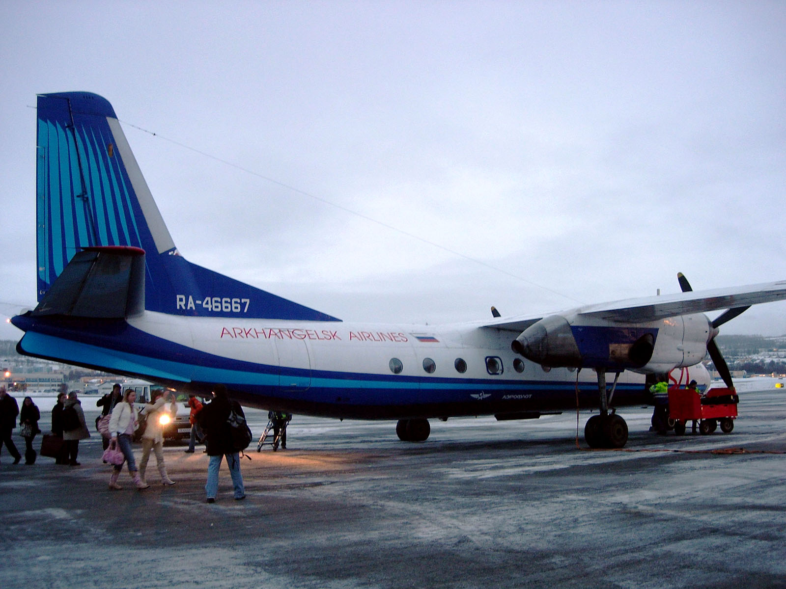 An Antonov-24 (RA-46667) from Arkhangelsk Airlines, photographed inside Murmansk Airport